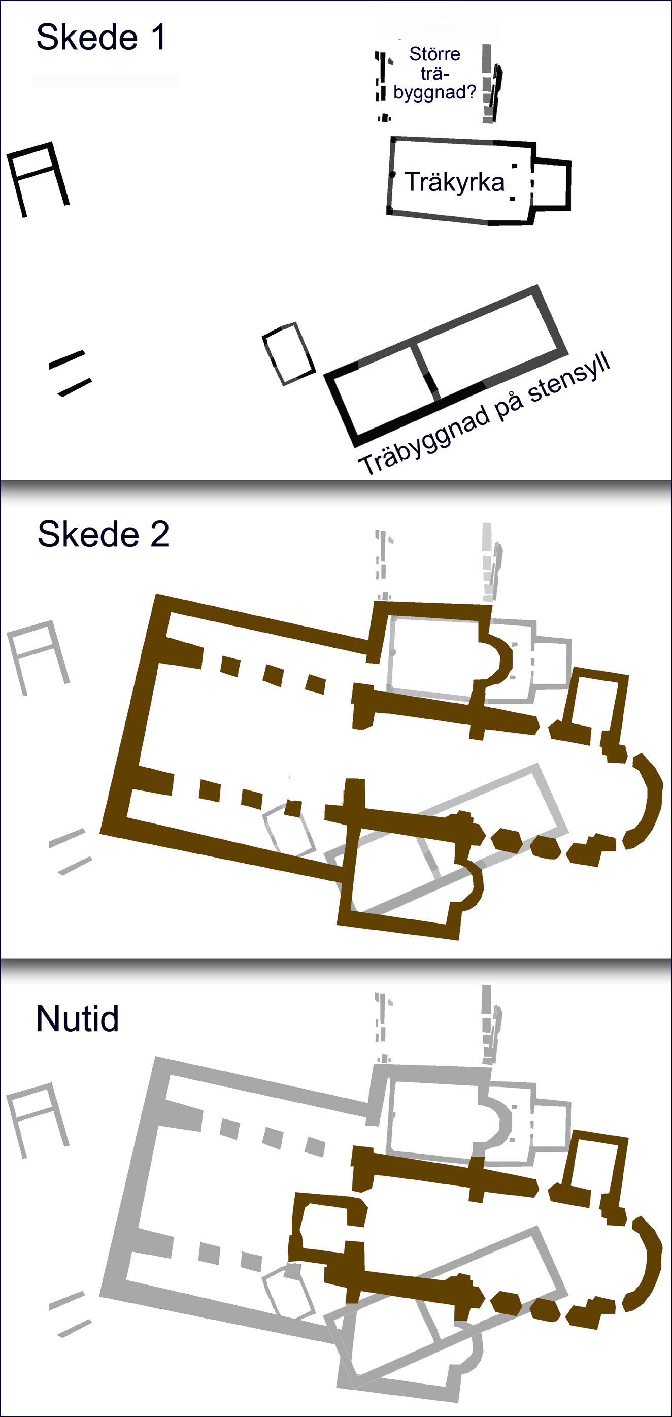 Drawings showing the archaeological results from the church of Old Uppsala in Sweden.